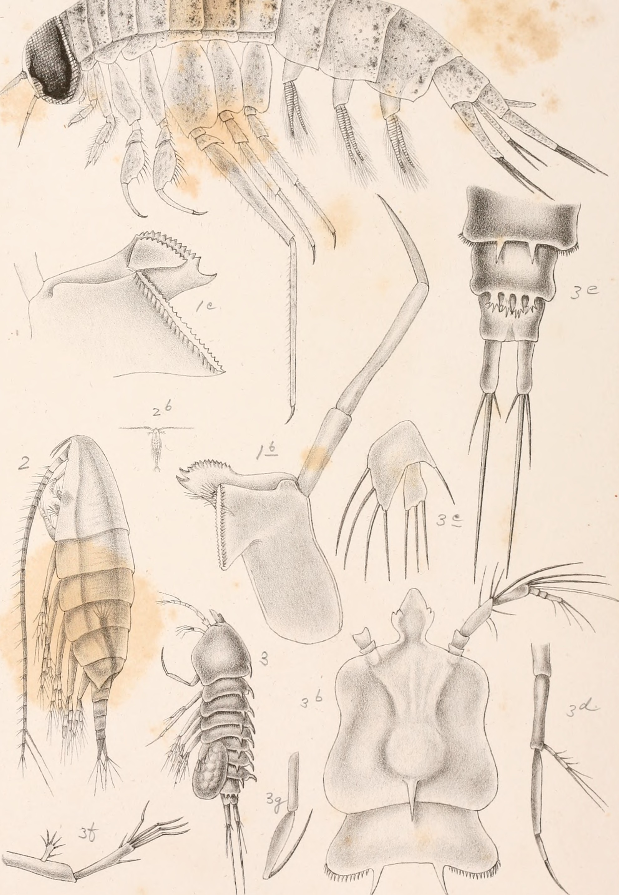 Title: Die zweite Deutsche Nordpolfahrt in den Jahren 1869 und 1870, unter Führung des Kapitän Karl Koldewey Year: 1873-1874 (1870s) Authors: Verein für die Deutsche Nordpolarfahrt in Bremen; Geographische Gesellschaft in Bremen; Koldewey, Karl, 1837-1908 Subjects: Koldewey, Karl, 1837-1908; Deutsche Nordpolar-Expedition, 1869-1870; Natural history -- Arctic regions; Geophysics -- Arctic regions; Arctic regions -- Discovery and exploration German; genealogy Publisher: Leipzig : F. A. Brockhaus Text Appearing Before Image: i, 1^. Text Appearing After Image: '